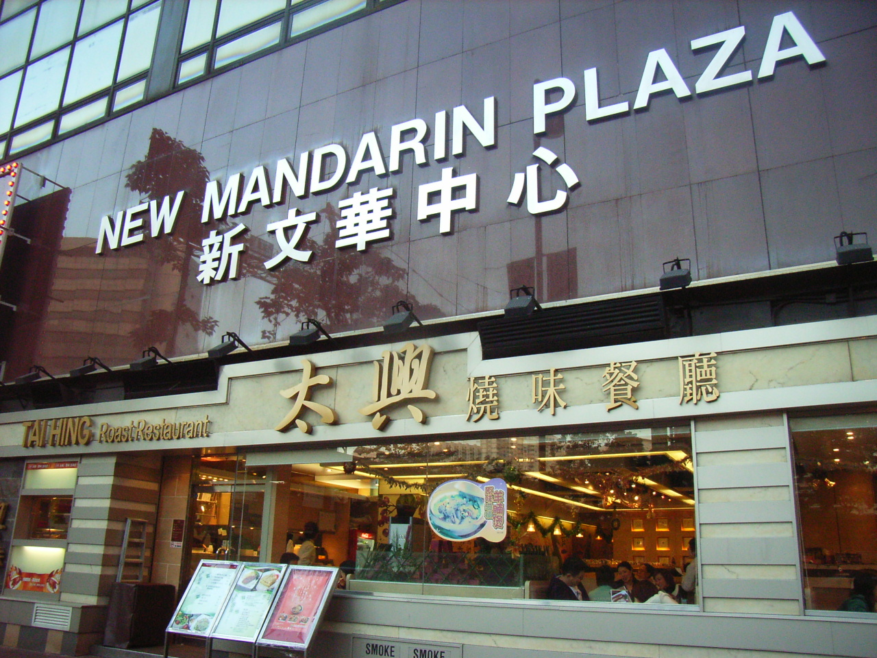 科學館道14號zh:新文華中心 太興燒味